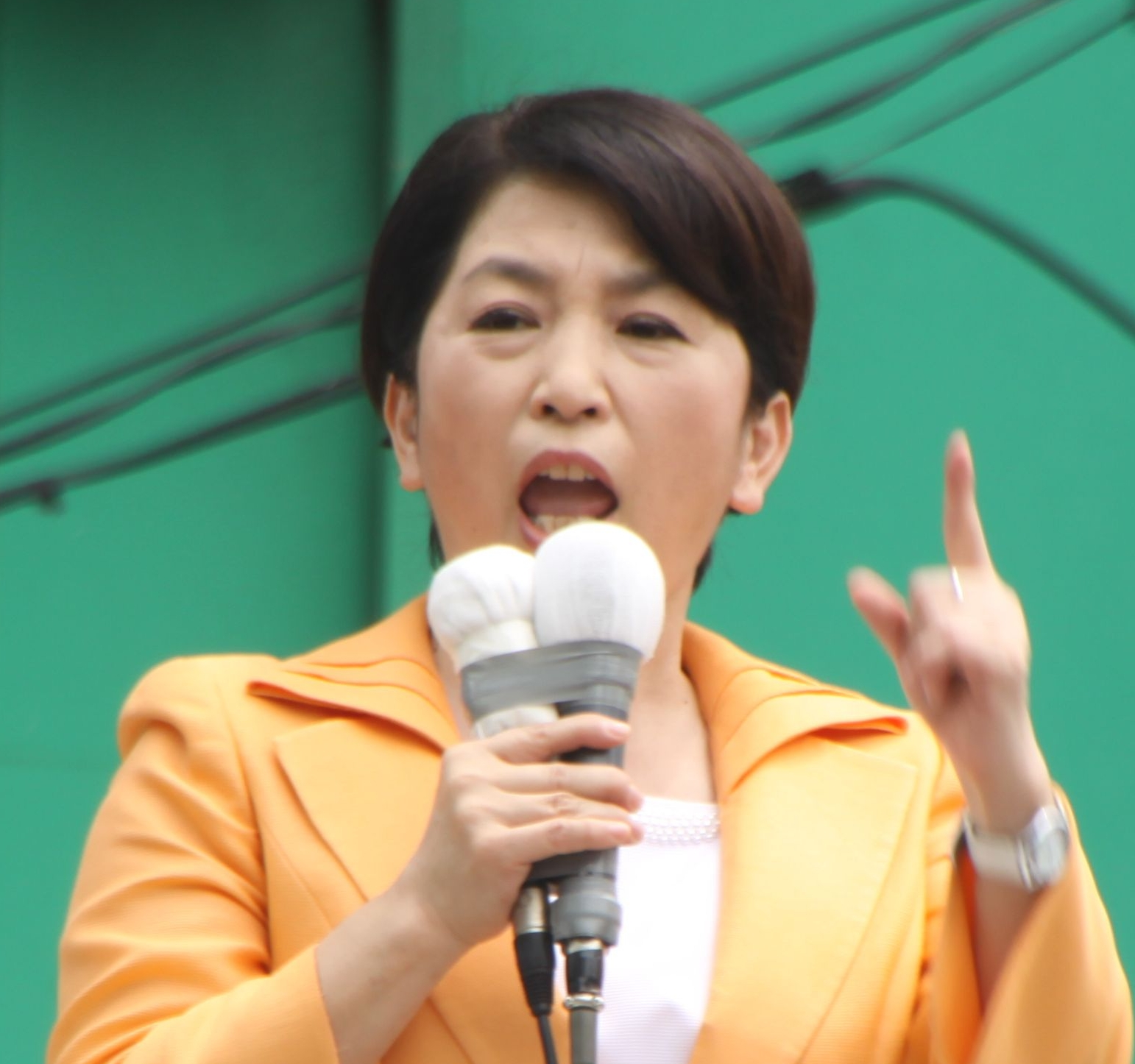 Mizuho Fukushima, President of the Social Democratic Party, campaigning in Shinjuku, Tokyo, on June 24, 2010